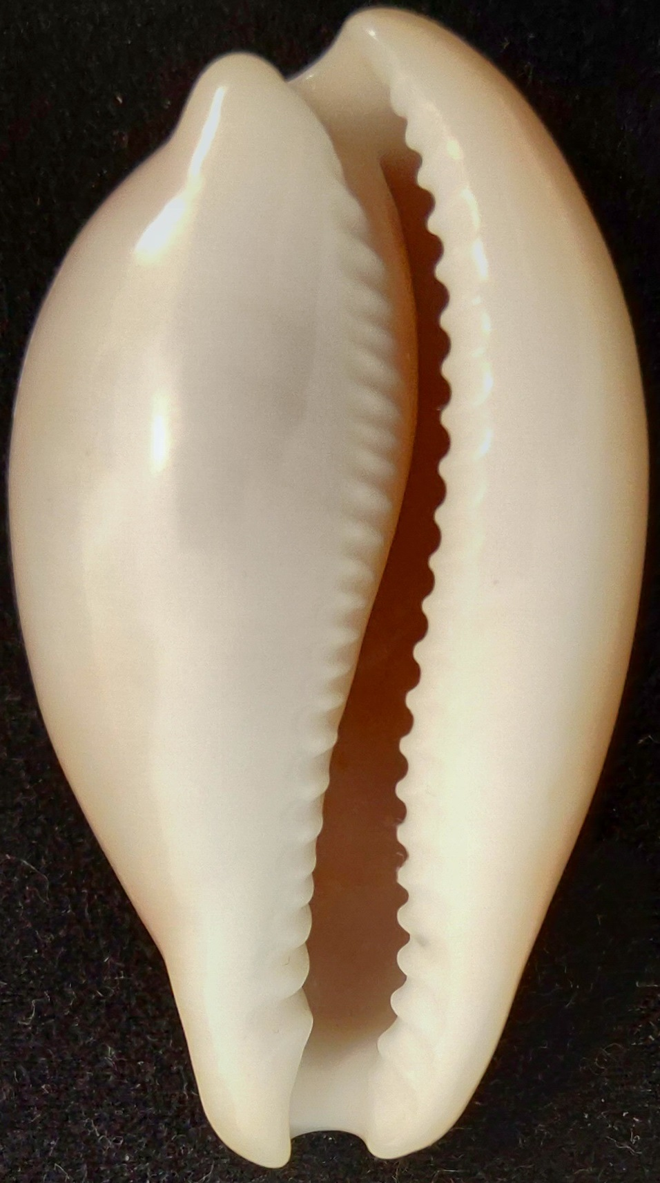 Neobernaya Spadicea Front